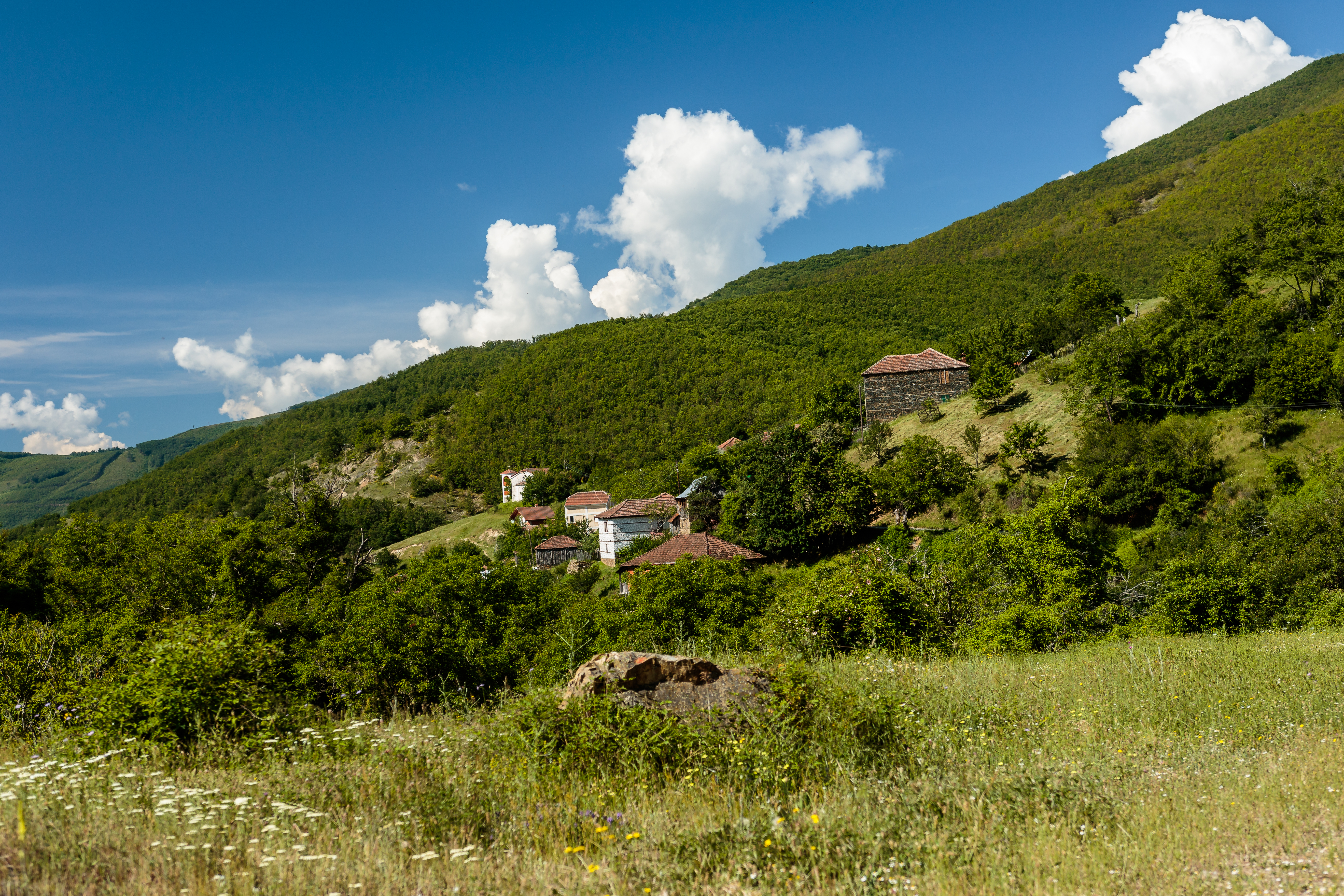 View of the village Arilevo